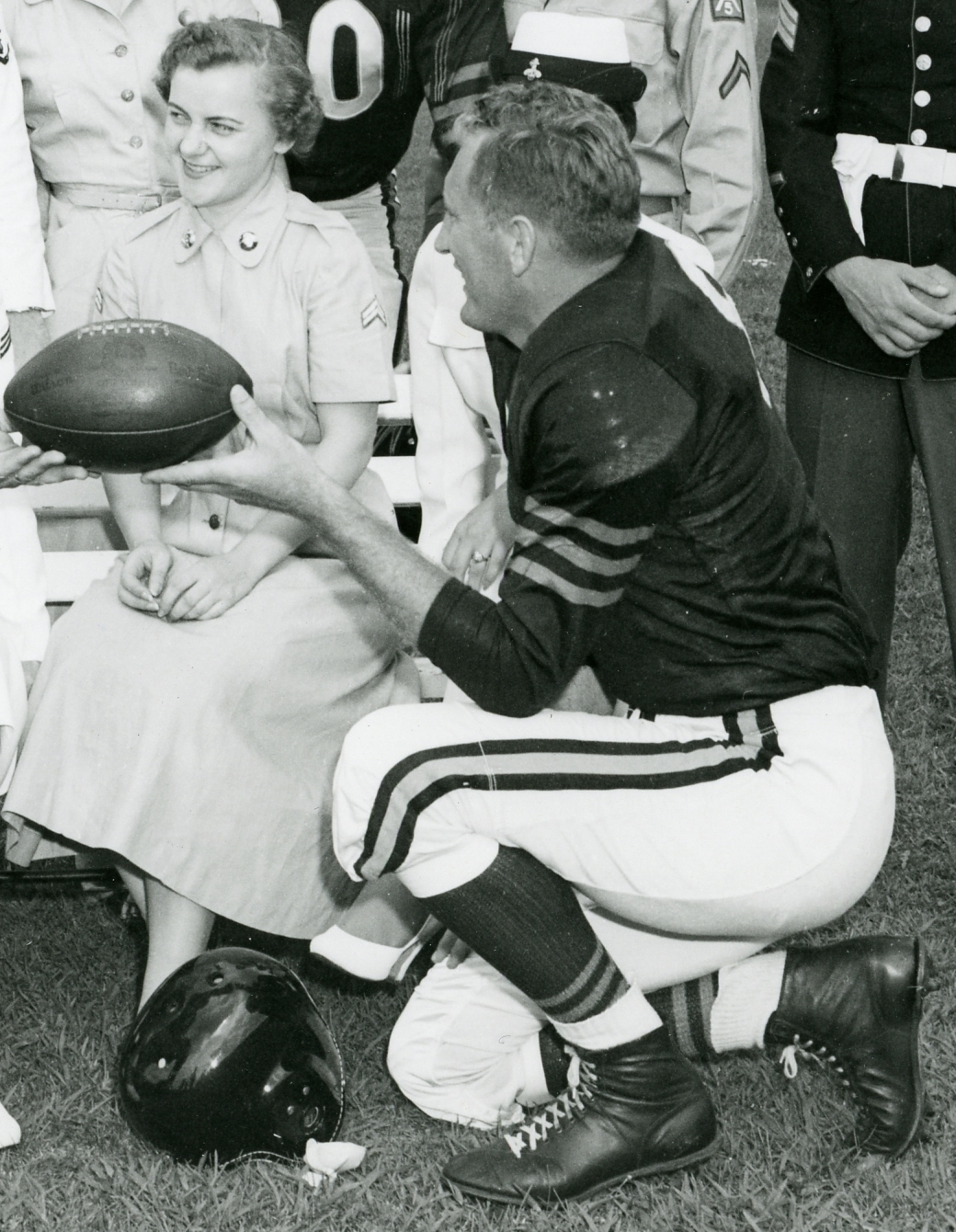 Scope and content: The original caption describes the photograph as: Military Personnel with Some of the Members of the Chicago Bears Football Team - In the group are George Blande, Cpl Jo Ruff, Cpl Sonia Schmit, Harry Jagade, fullback of the Bears, Larry Brink, and Pfc John Carbon.